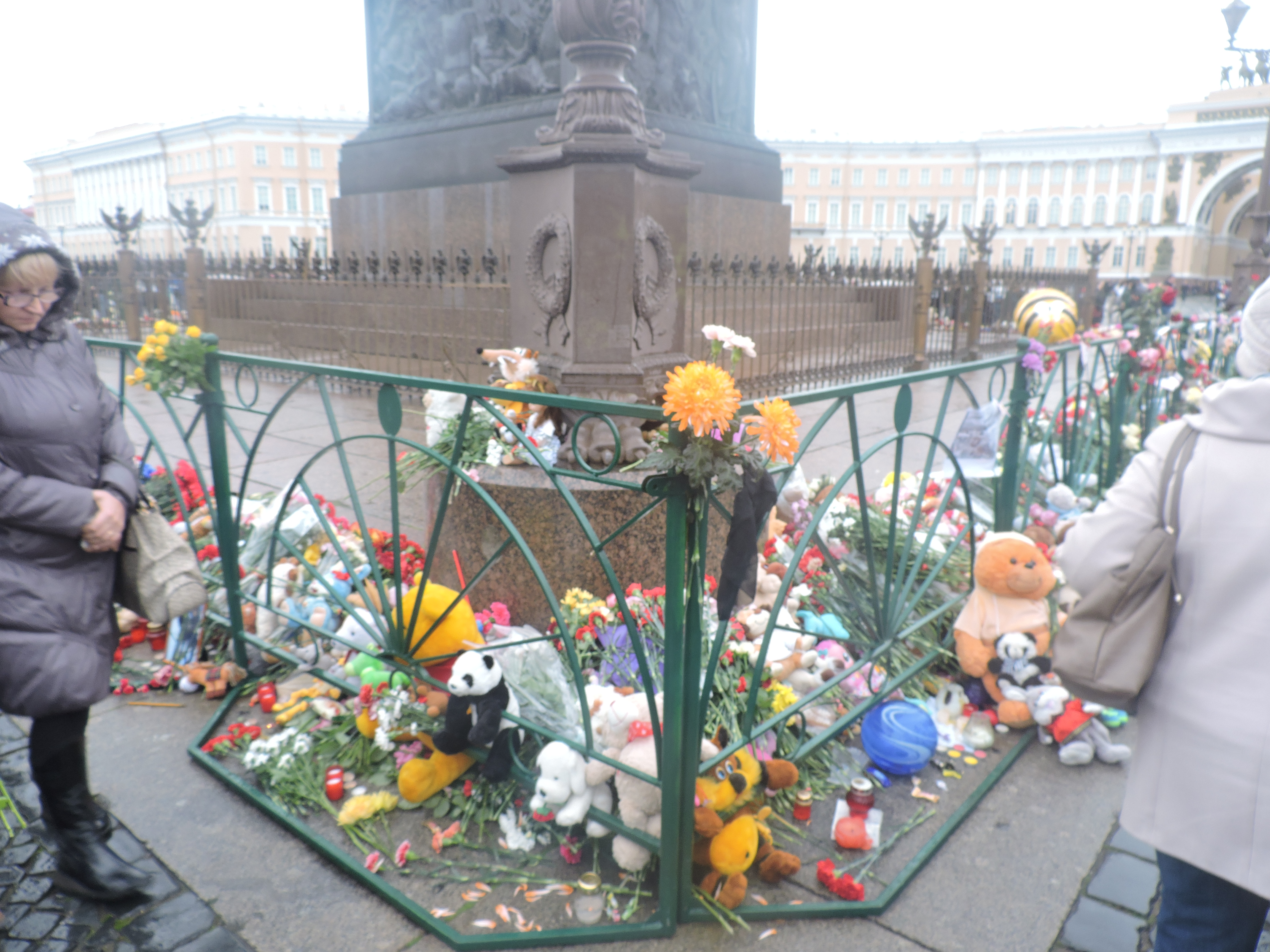 Memorial for those killed in the Kogalymavia Flight 9268 crash